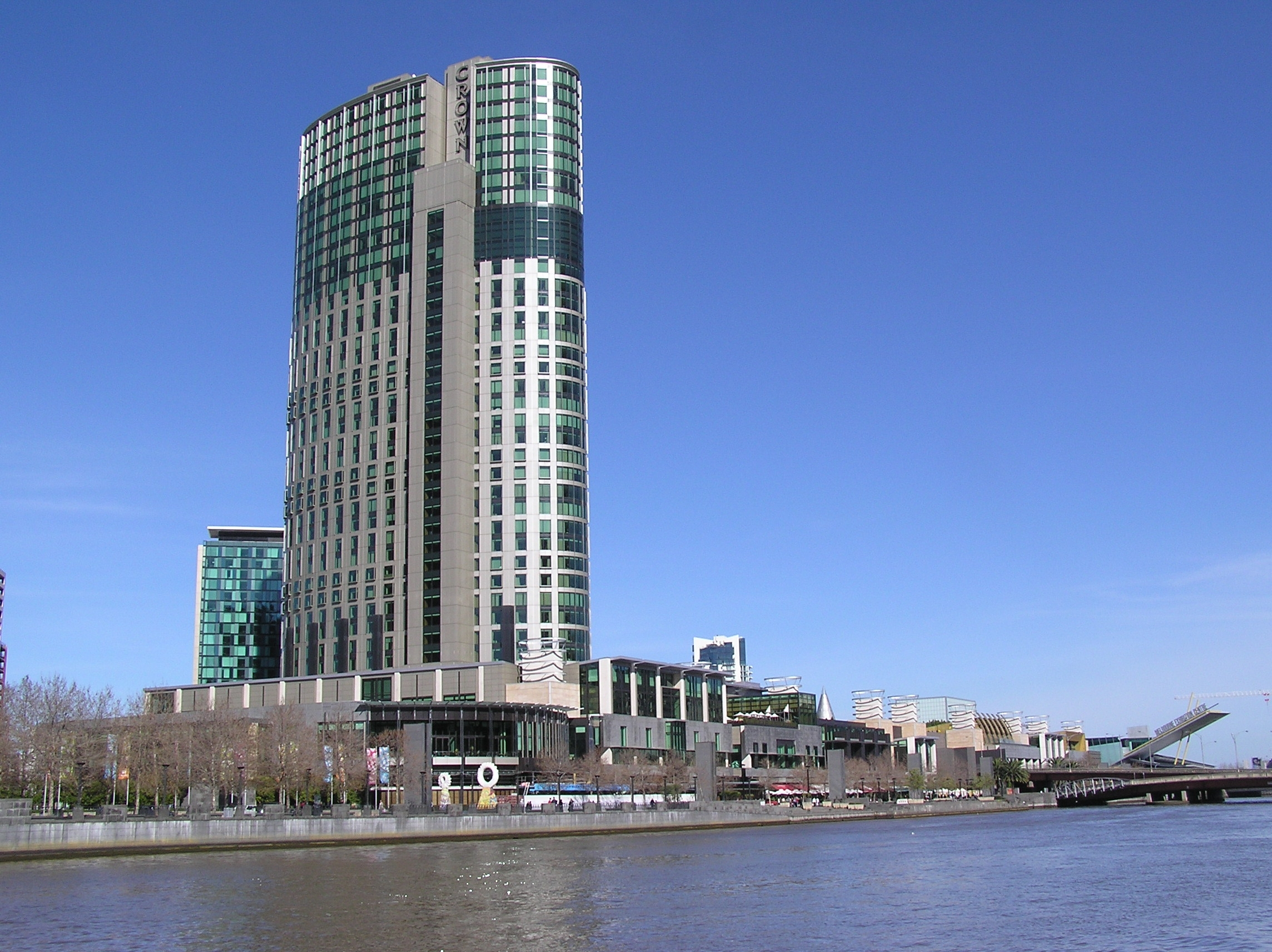 Melbourne Crown Casino Complex in Southbank of the Yarra River